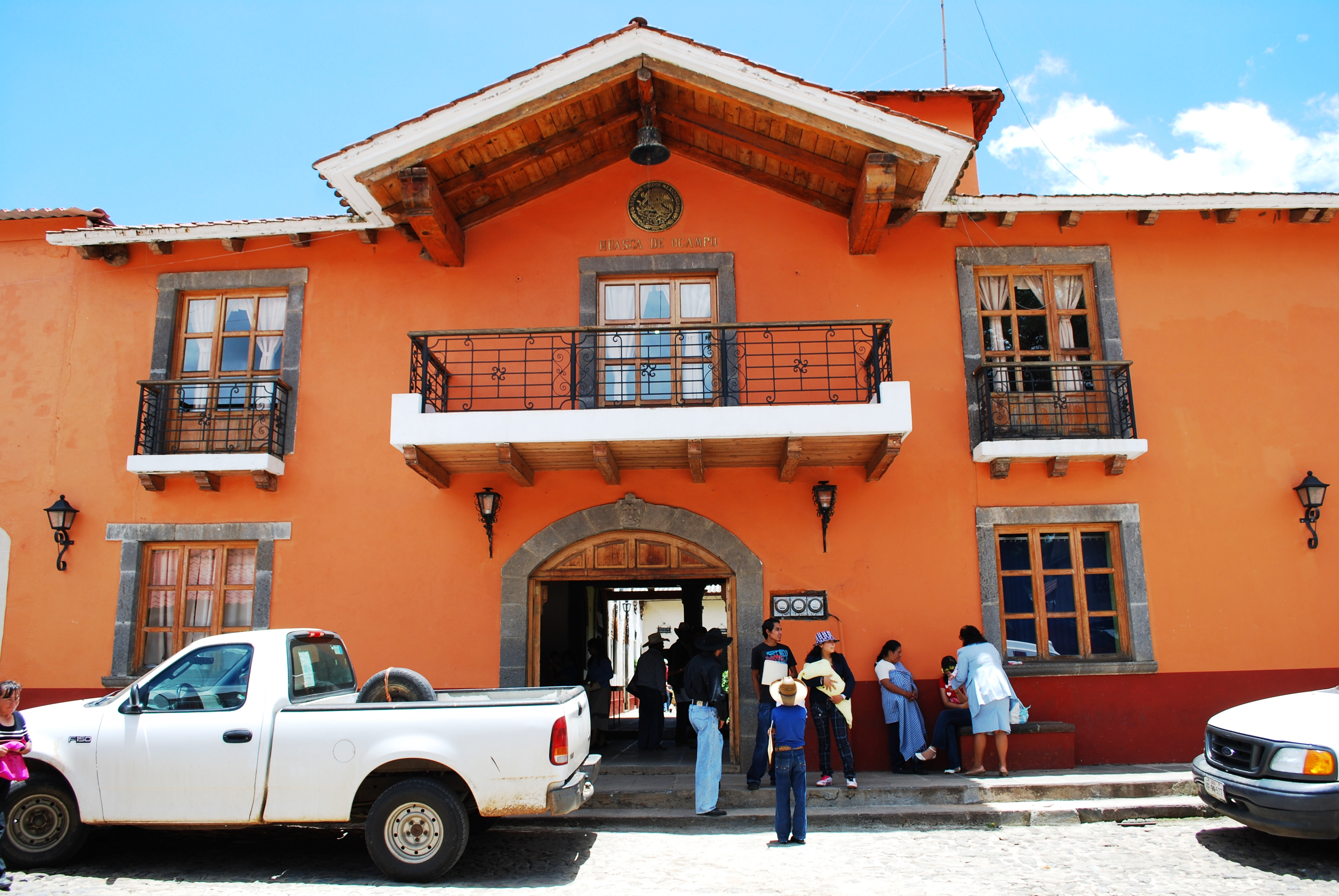 Municipal Palace of Huasca de Ocampo, Hidalgo, Mexico